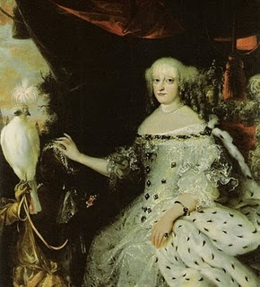 Portrait of Sophie Amalie of Brunswick-Lüneburg (1628-1685)